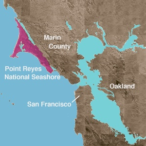 Point Reyes National Seashore © 2004 Matthew Trump